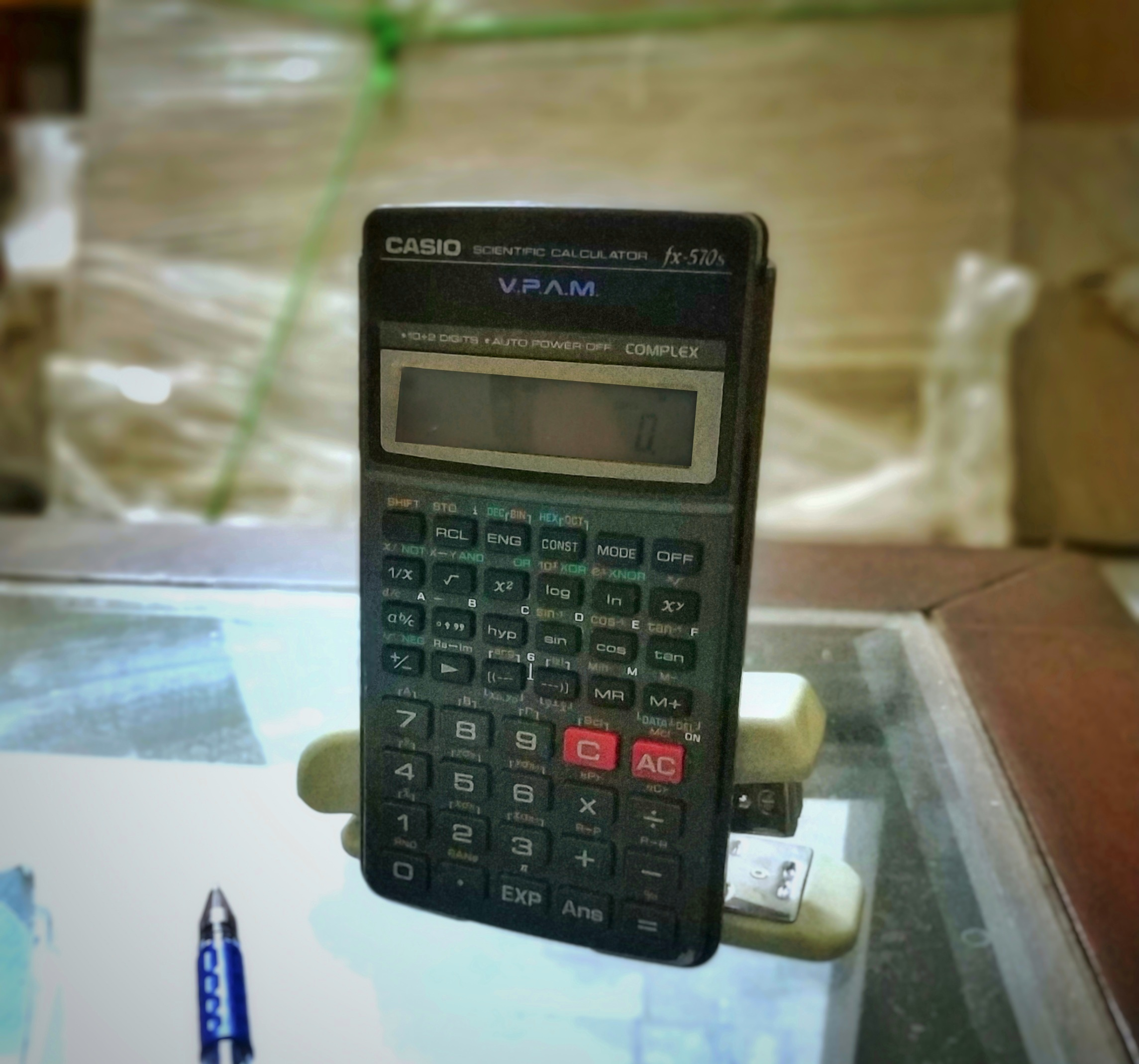 Photo of Casio V.P.A.M. 570s by Ahabbscience Studio Pakistan.